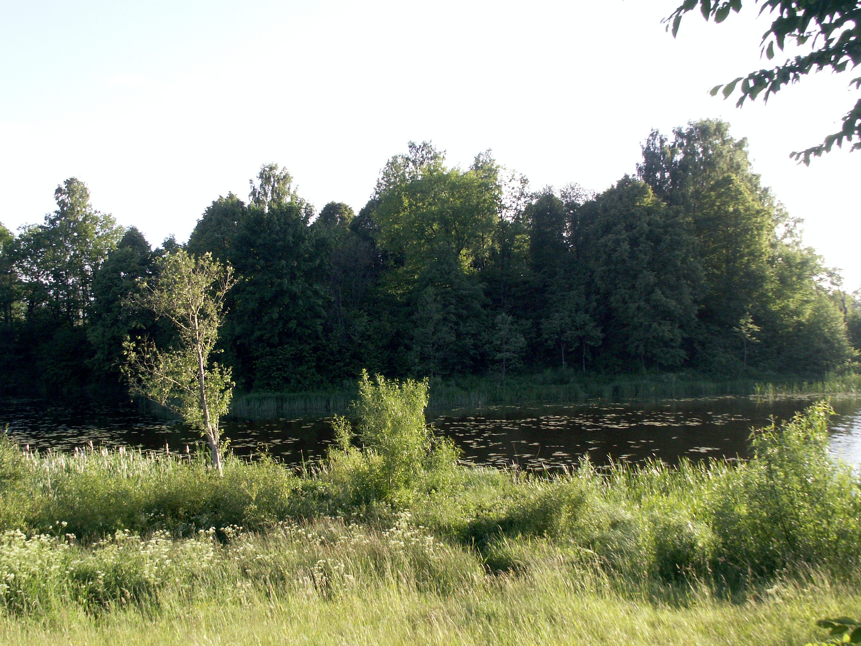 Hillfort Kurmaičiai, Kretinga district, Lithuania